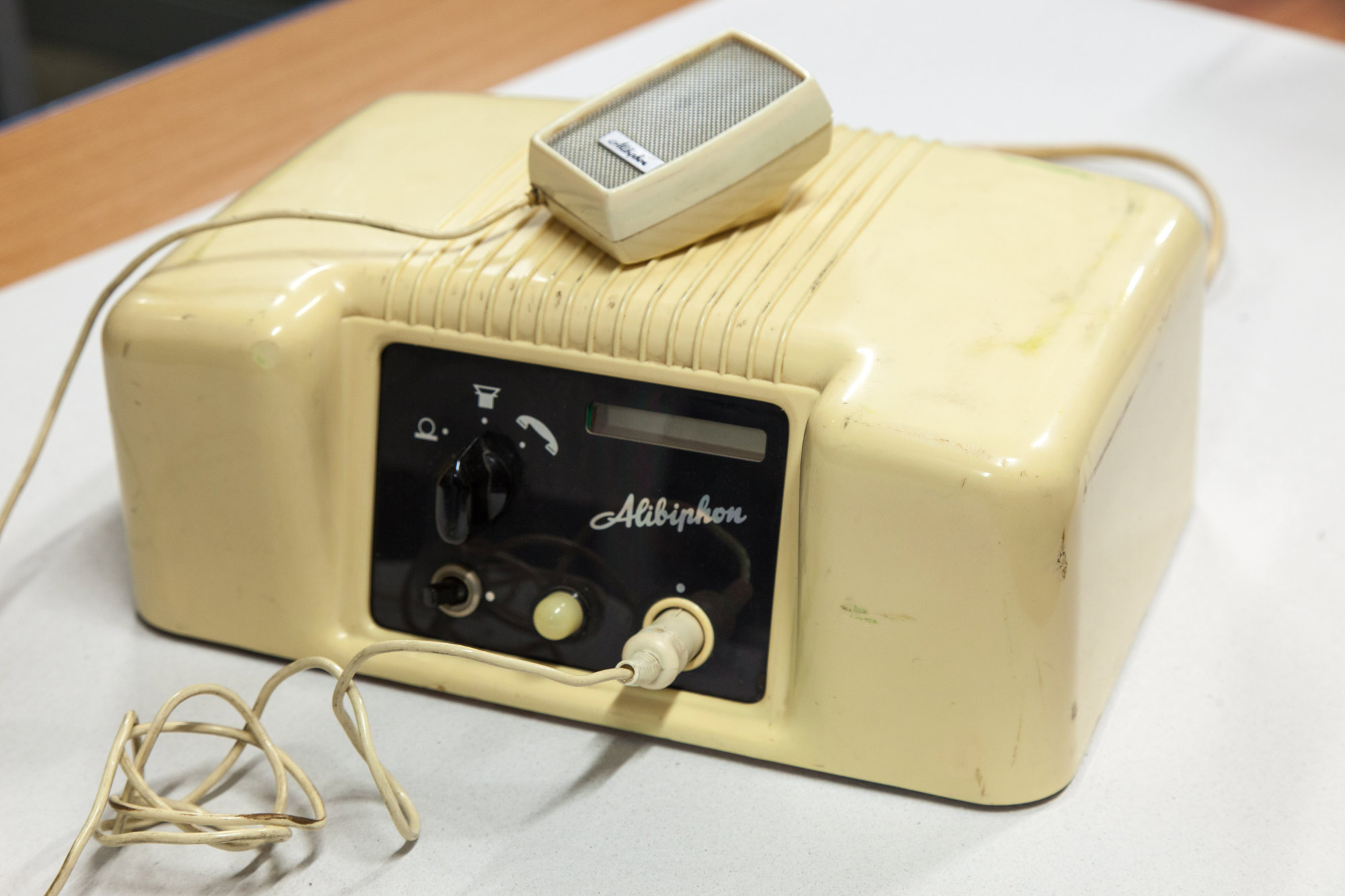 The Alibiphon, built by Willy Müller in ca. 1957, was one of the first answering machines in Germany. The cabinet was made of plastic, the chassis was steel. The device used a single rim-driven magnetic disk for recording the outgoing message and a basic tube circuit (later models were transistorized). The object on top of the device is the microphone to record messages. The narrow window over the Alibiphon logo is the "time counter" showing position of the magnetic recording-playback head over the disk. The erase head was fixed and was large enough to demagnetize all tracks in one pass). A complete answering machine was made of this unit, an external reel-to-reel incoming message recorder, and a third unit to control this recorder. Museum für Kommunikation, Frankfurt, Germany. Photo by Maximilian Schönherr with help from Lioba Nägele.